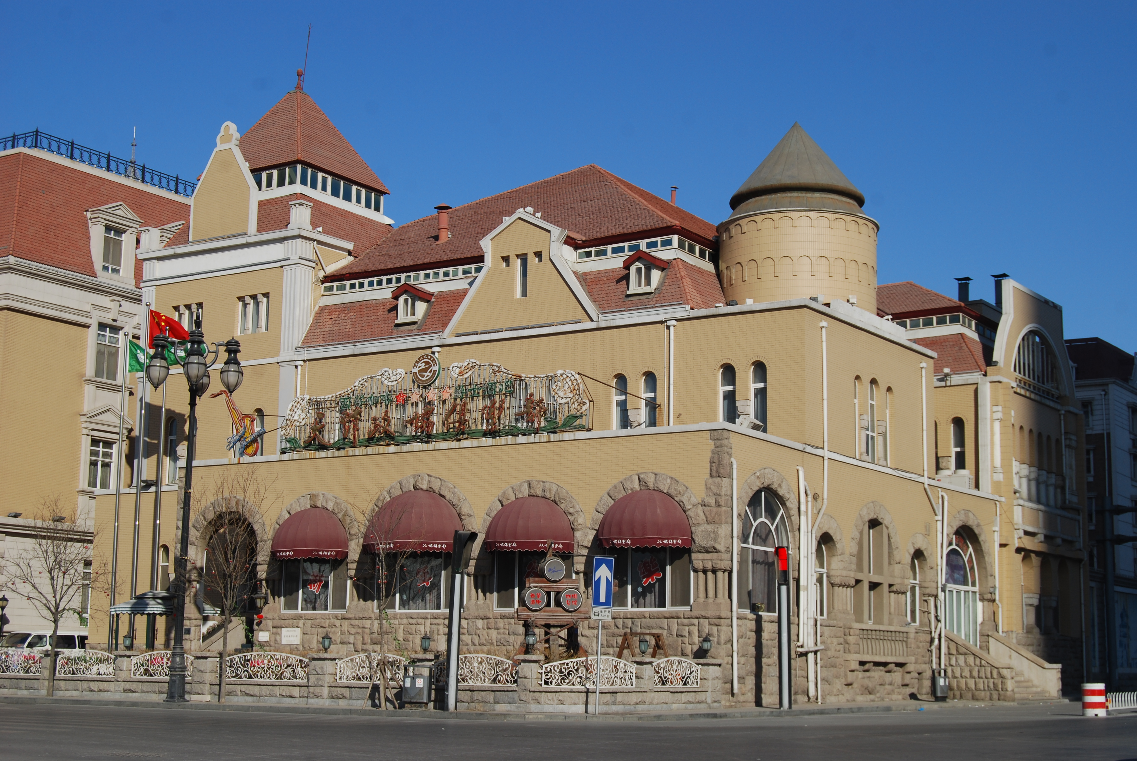 Former German Club in Jiefangnan Lu No. 273, Hexi District, Tianjin